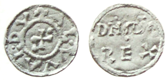 Coin of Æthelwold ætheling